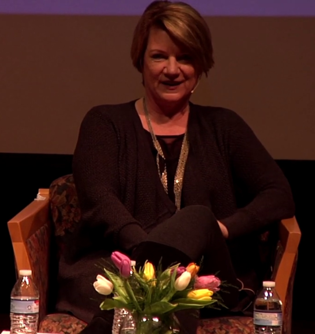 An interview with American journalist and author Jeanne Marie Laskas conducted by the Peters Township Public Library at the Peters Township Middle School.